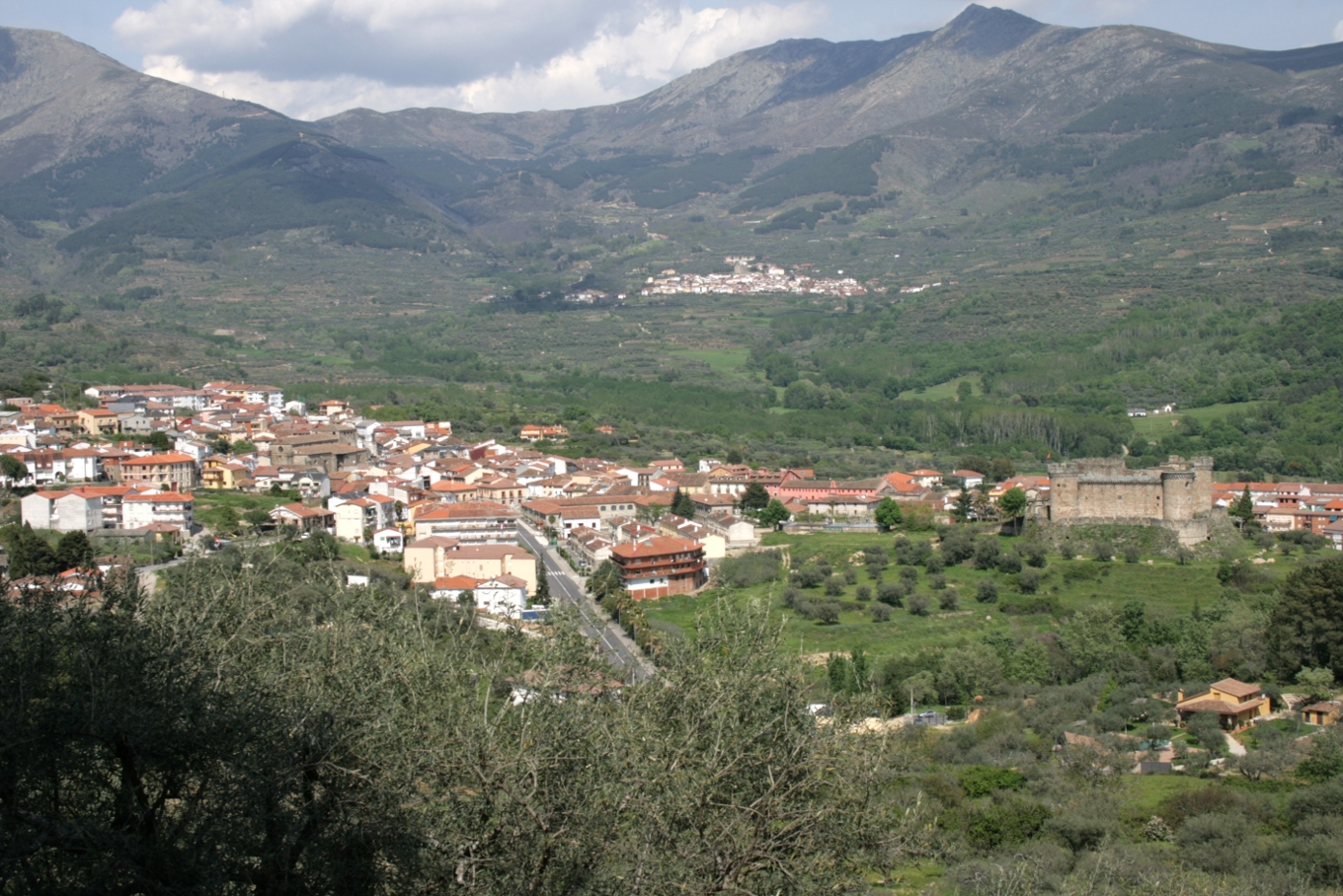 View over Mombeltrán in the province of Ávila, under the autonomous region Castilla y Léon, Spain.